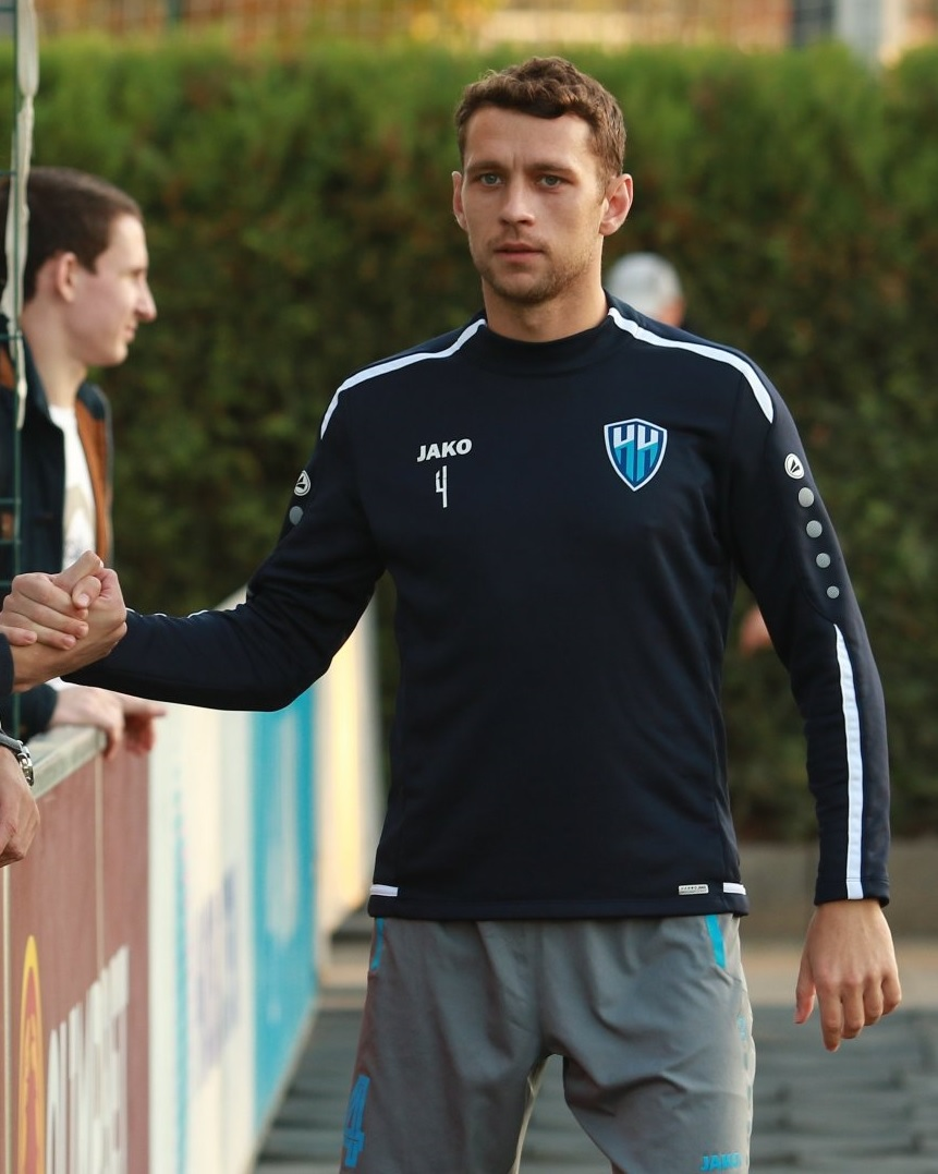 Artyom Abramov with FC Nizhny Novgorod during a game against FC Krasnodar-2.